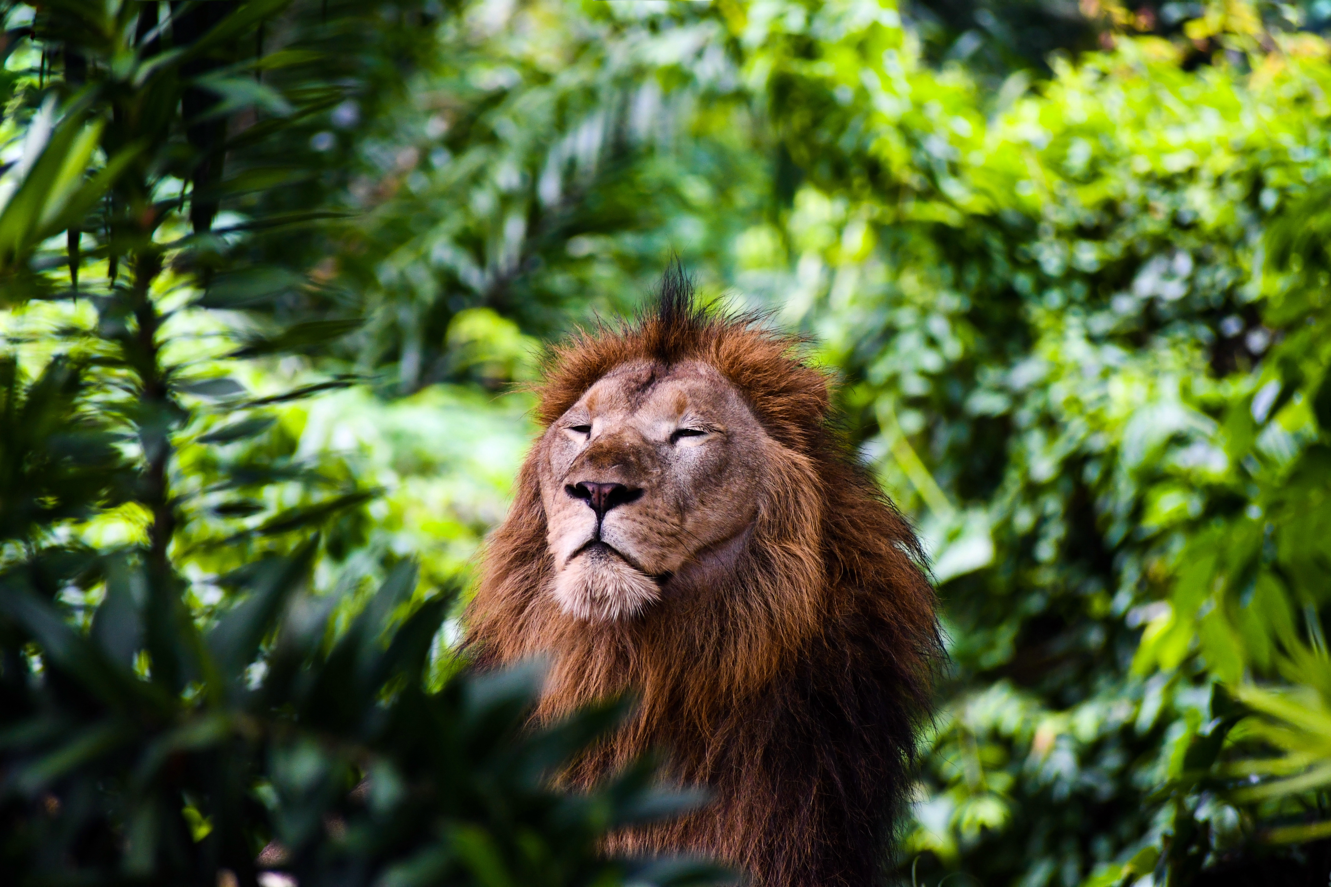 A lion basking in the sun amongst greenery.